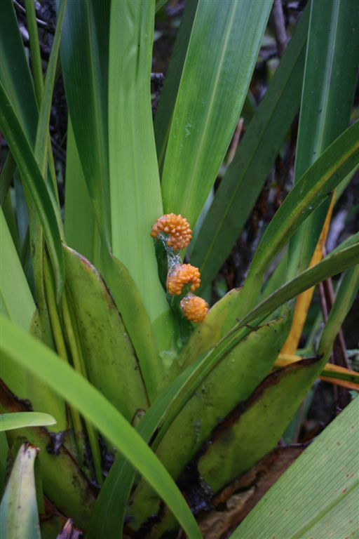 Stegolepis guianensis of mount Roraima, Venezuela